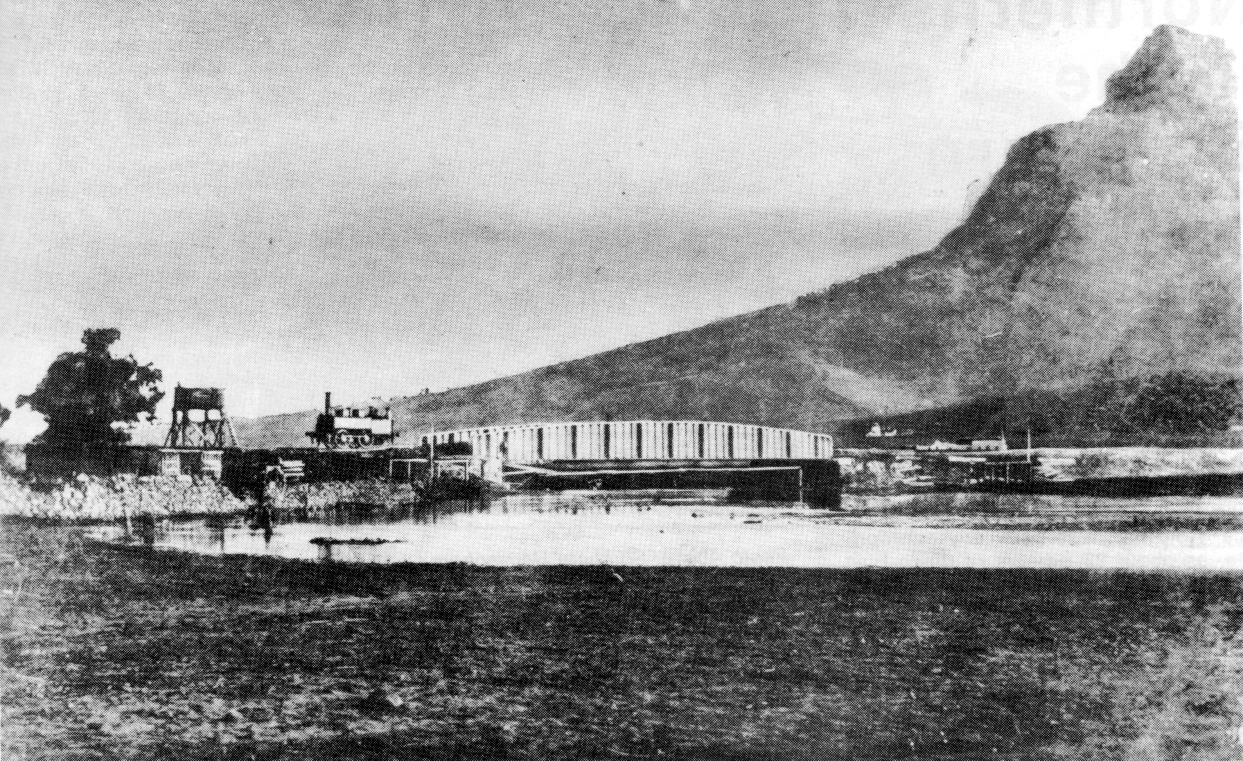 The first locomotive in South Africa, Messrs. E. & J. Pickering’s construction locomotive, crossing the bridge across the Salt River circa September 1861. Built as a 0-4-0 tank locomotive, it was modified to an 0-4-2T configuration by the Cape Government Railways before it was shipped to Port Alfred, where it was nicknamed Blackie